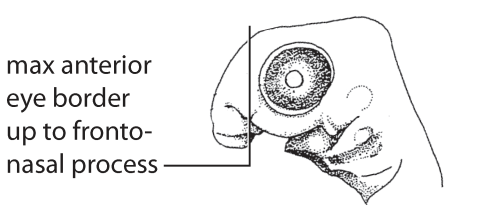 Standard Event System character depiction